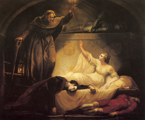 A Monument Belonging to the Capulets by James Northcote, 1789 - See Joseph Wright article Romeo and Juliet: the tomb scene